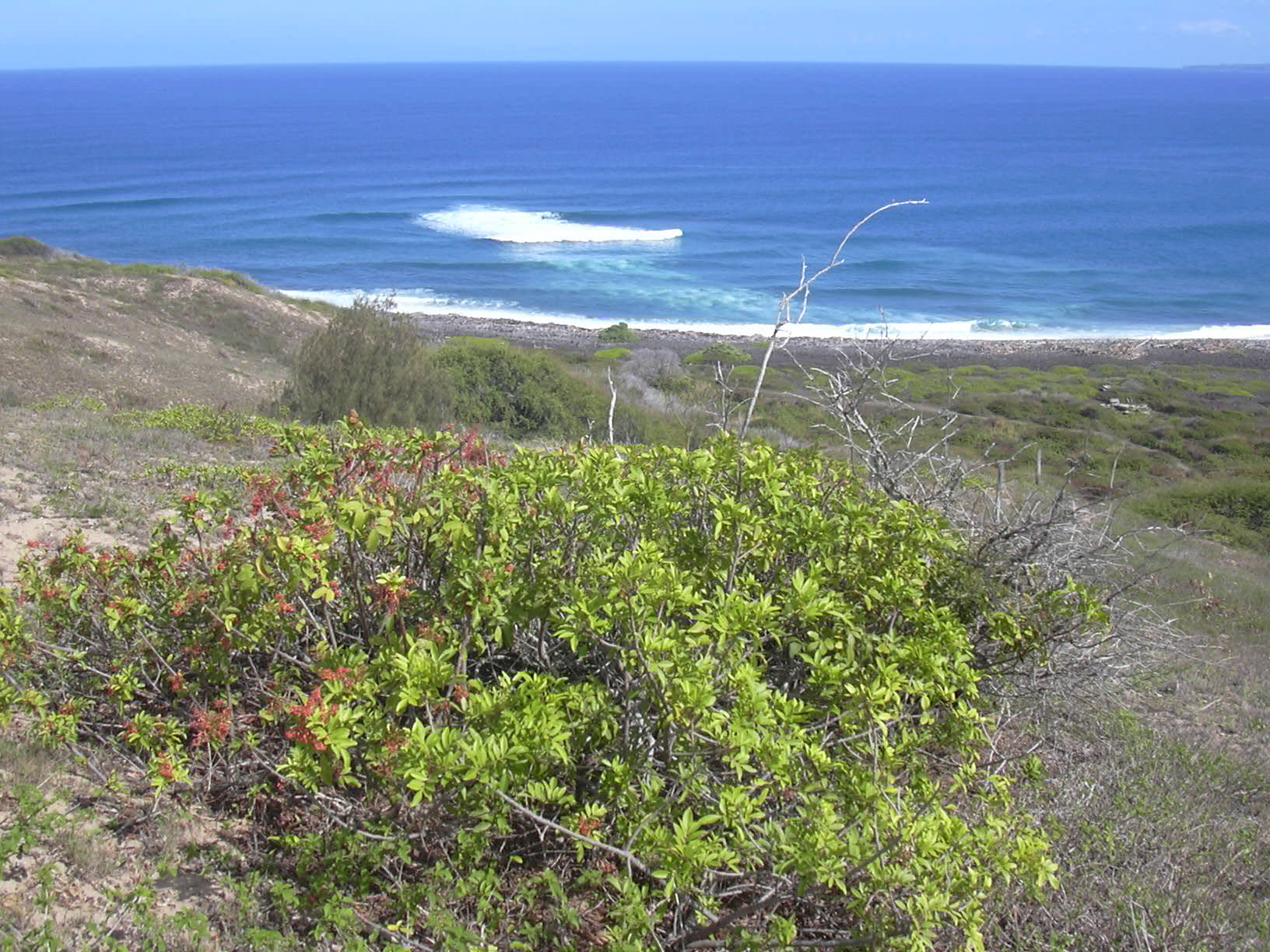 Schinus terebinthifolius (habit). Location: Maui, Waihee Pt